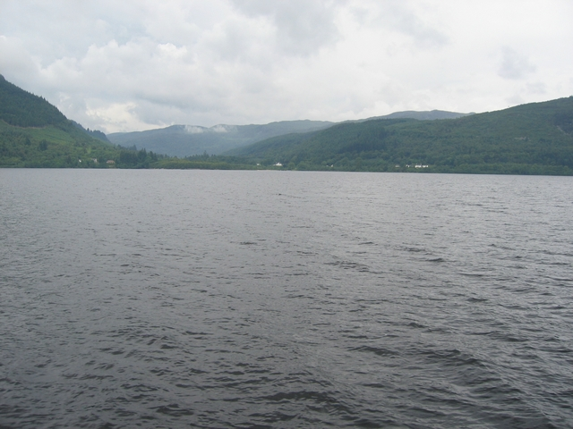 Loch Ness One of Britain's few 'all water' inland grid squares. This is a view of almost all of it, looking from south-east to north-west. Beyond, on the shore, is Invermoriston.